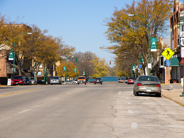 Broadway, Emmetsburg, Iowa, looking toward Five Island Lake from in front of the Courthouse.